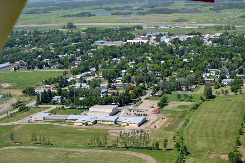 Broadview Saskatchewan from the air 2014